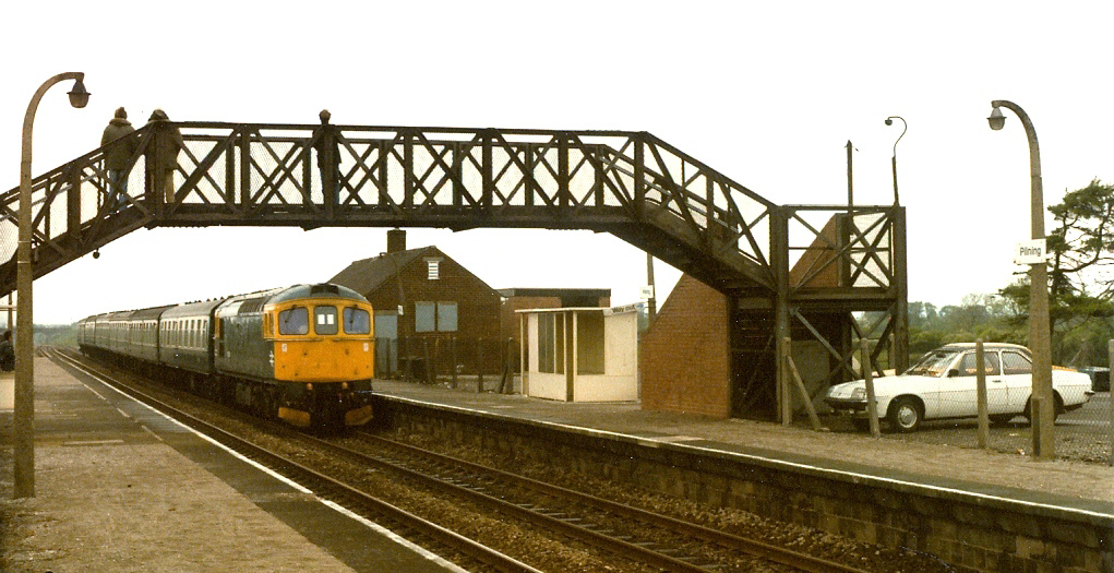 A class 33 diesel locomotive passes through Pilning railway station in Gloucestershire.